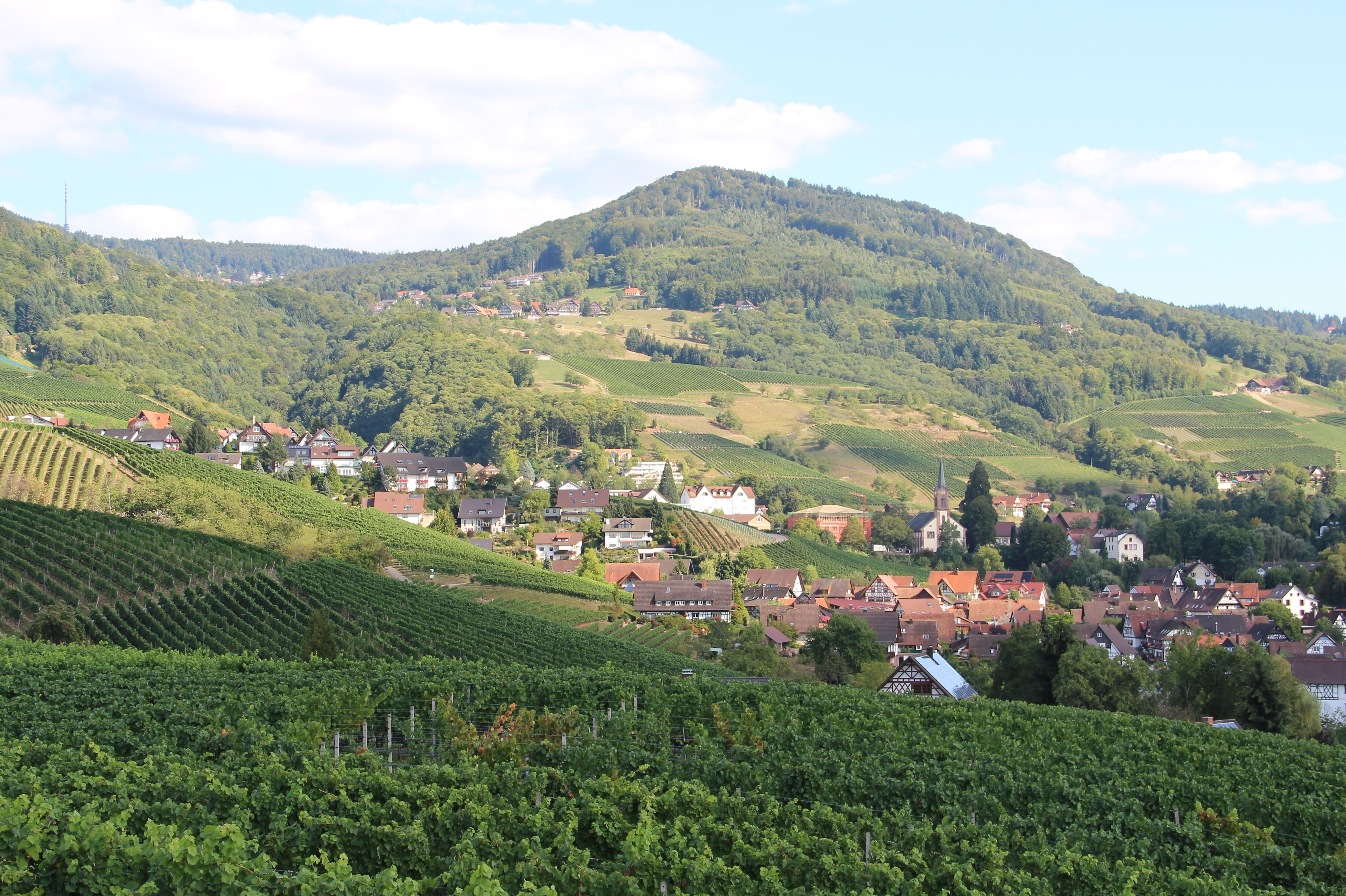 Village of Sasbachwalden as seen from Schelzberg. On the top of the Mountains to the left side sits the radio tower on the Hornisgrinde